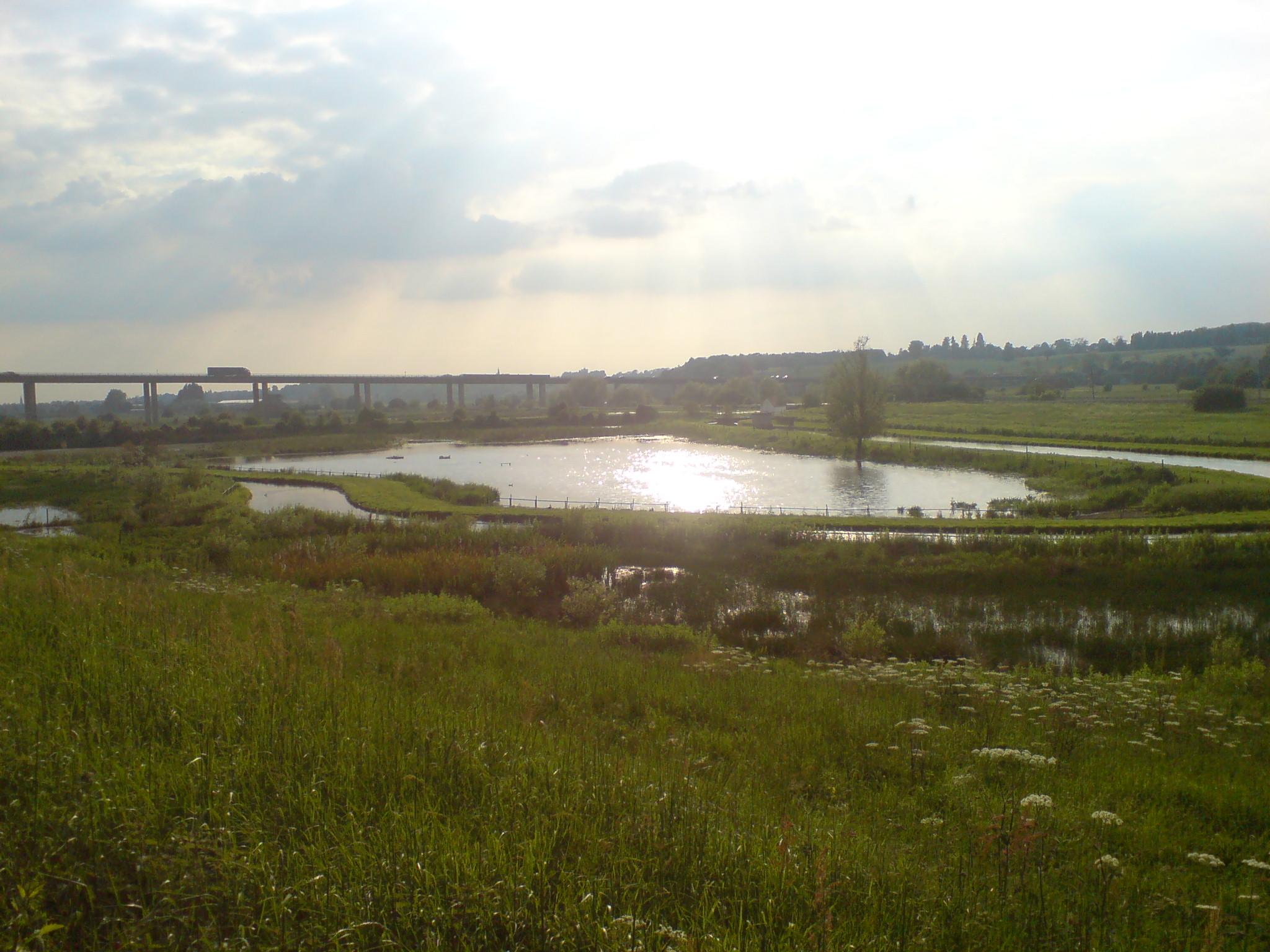 Author: Jamsta (talk) 18:23, 12 December 2007 (UTC)